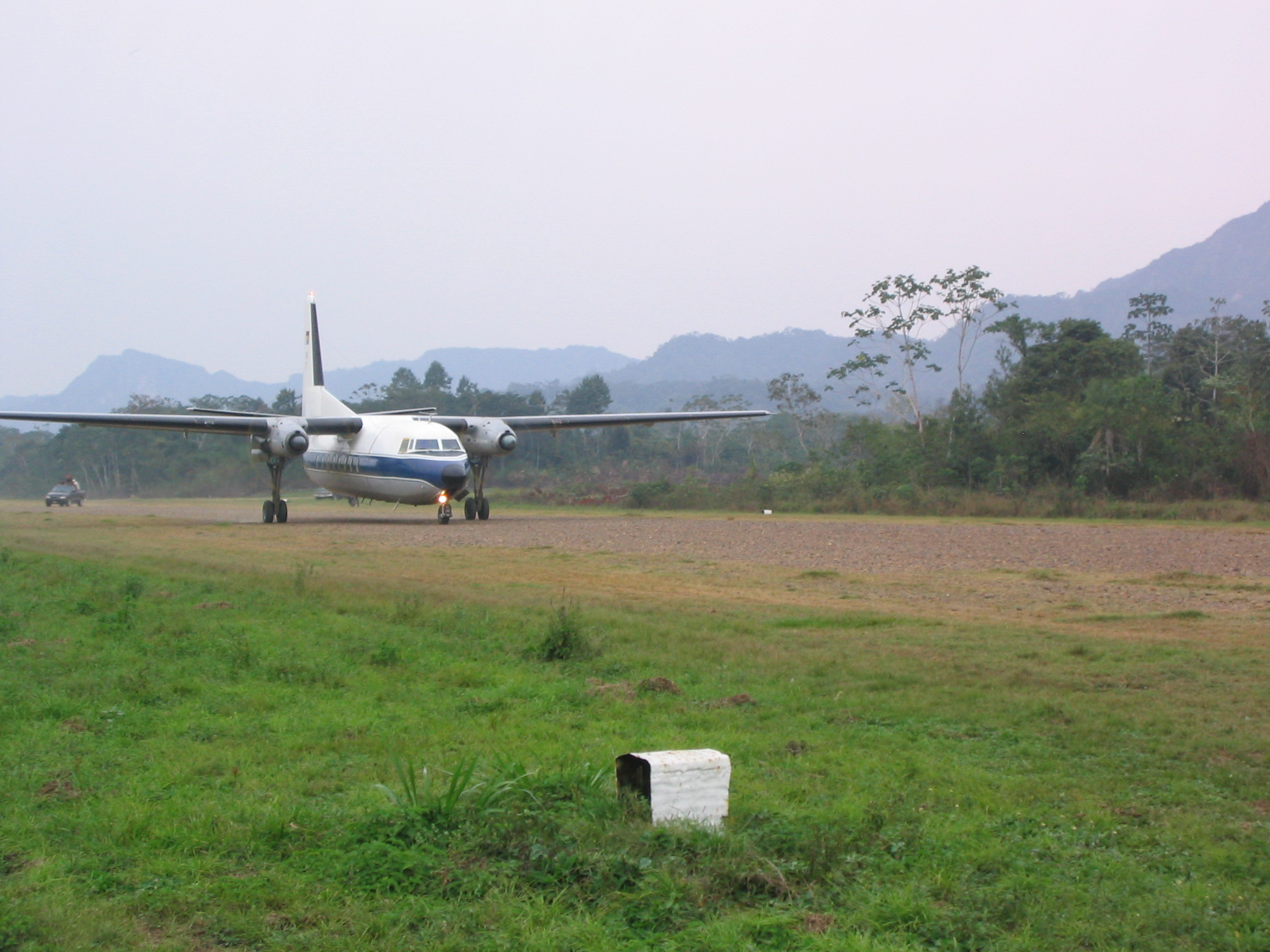 Landing strip at Rurrenabaque, Bolivia. This plane whisked us back up to La Paz in an hour, a journey which would've taken 24 hours by bus.